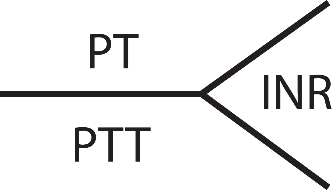 PT / PTT / INR